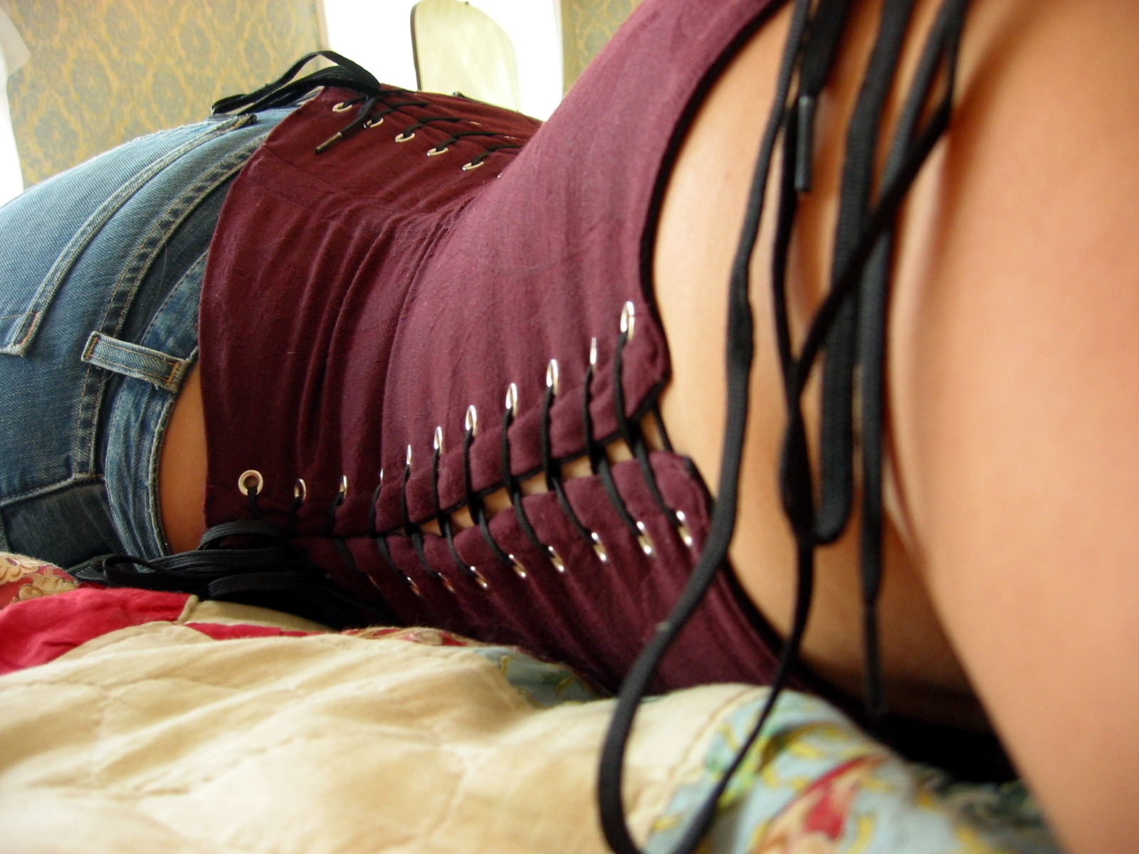 (on Black)